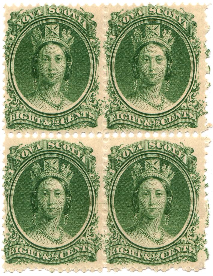 Nova Scotia 8-1/2 cent stamp, 21x27mm, first issued in 1860 (Scott #11). Imperfect vertical perforation. Printed by American Bank Note Company, New York.